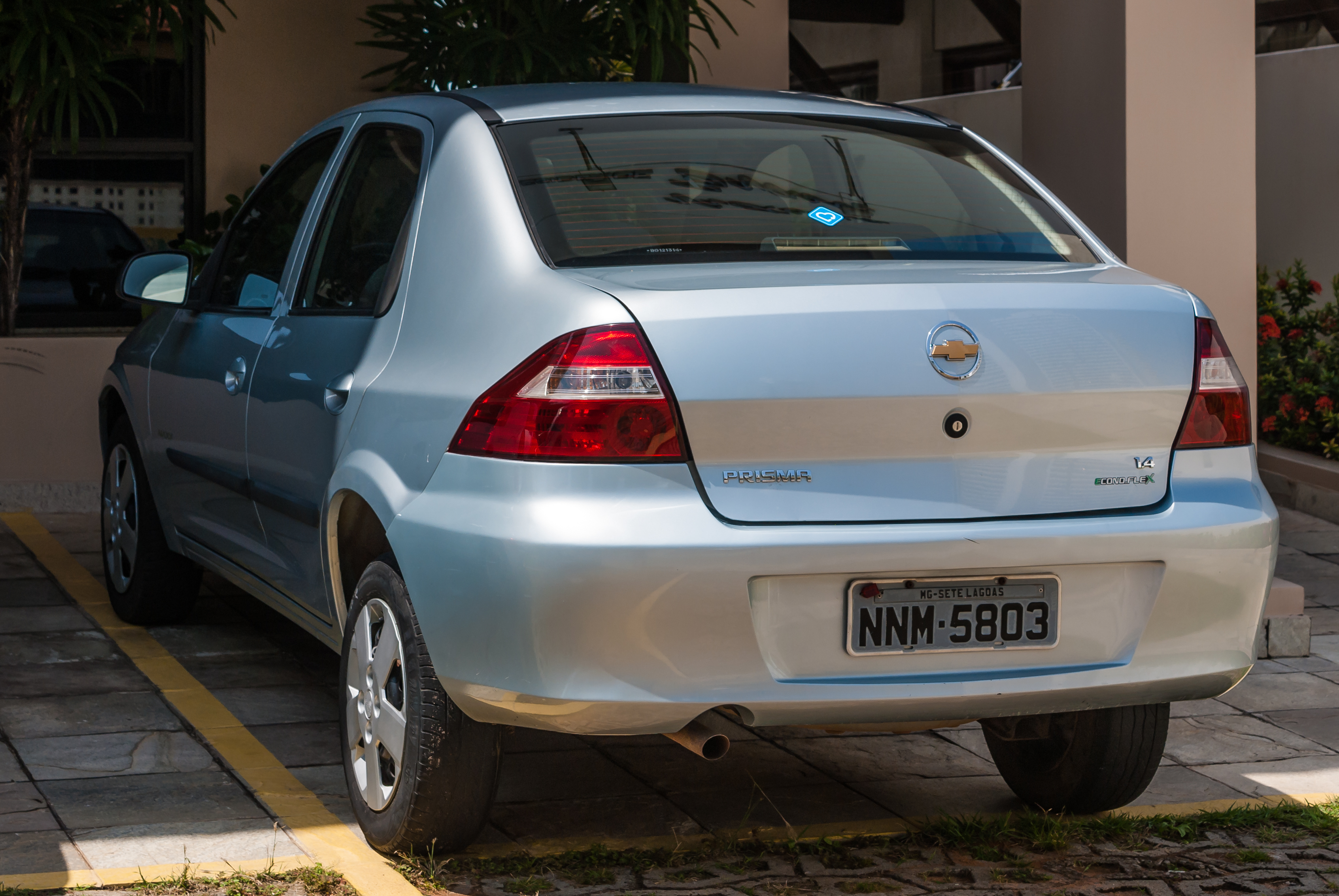 Chevrolet Prisma MkI